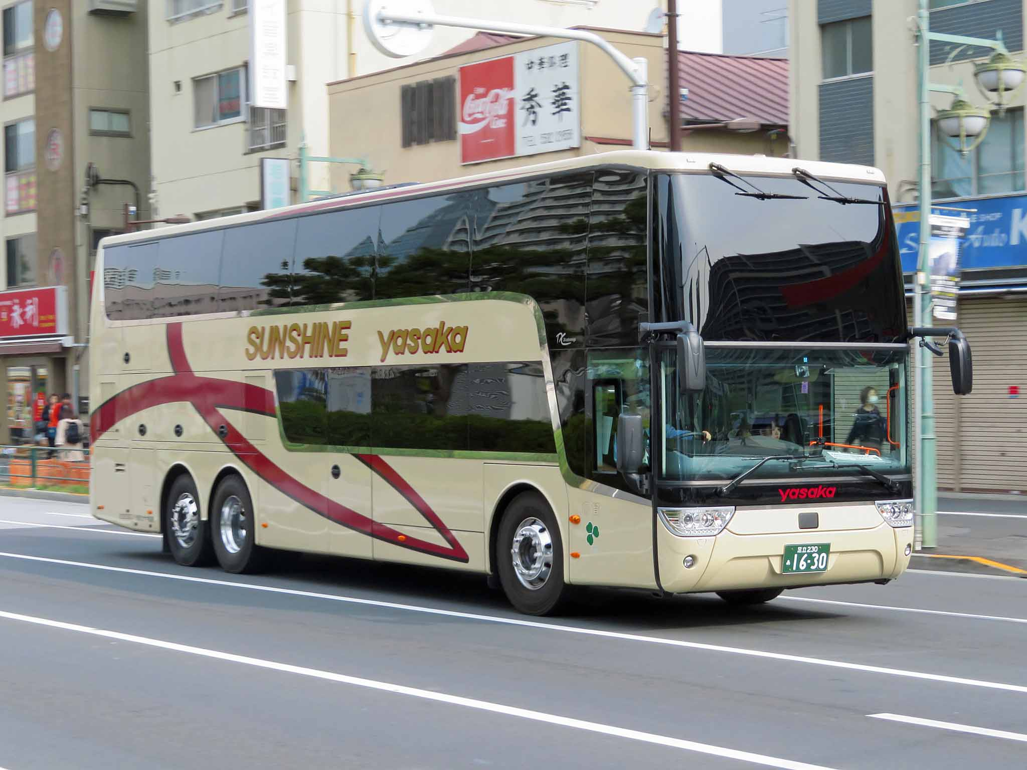 Van Hool Astromega TDX25 for Tokyo Yasaka Sightseeing Bus. License plate: TKA230A1630 Place: Toyosu, Koto Ward, Tokyo Japan